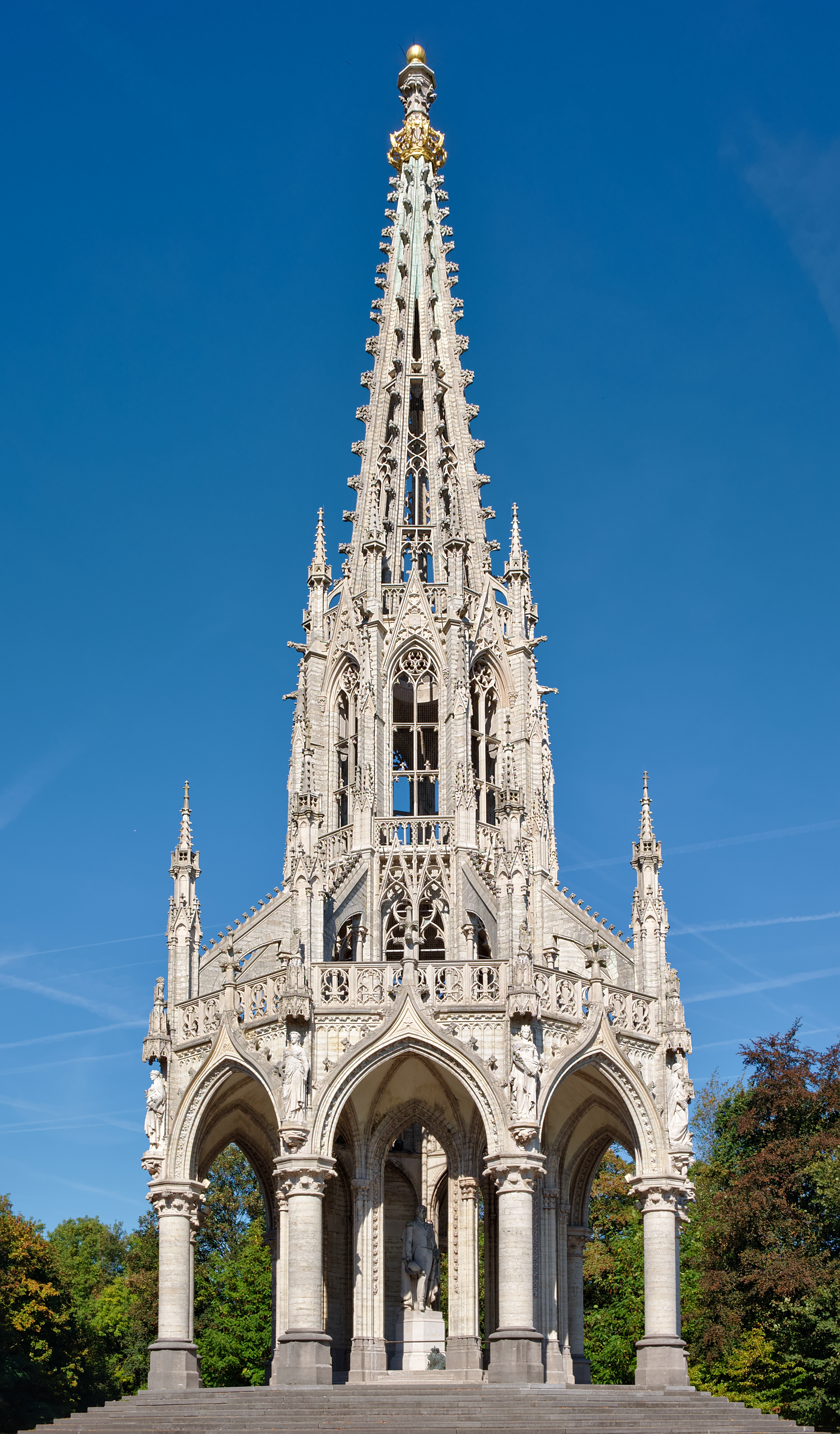 Monument of Leopold I in Laeken park, Brussels This photo of immovable heritage has been taken in the Brussels Capital Region